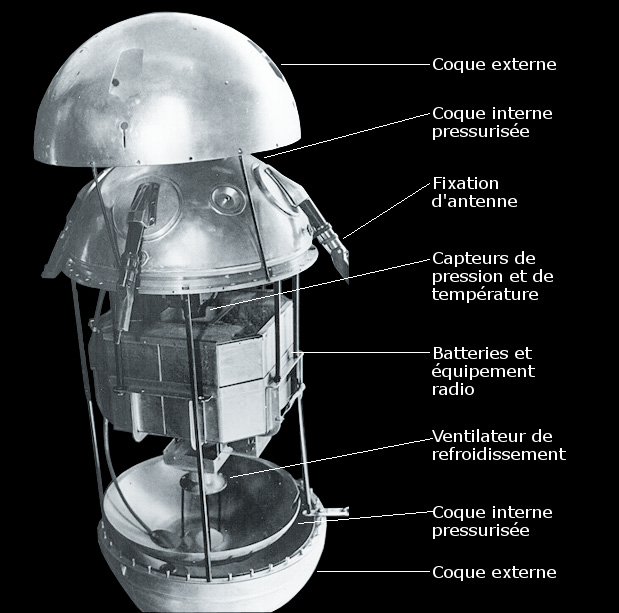 Annotated, exploded view of Sputnik 1